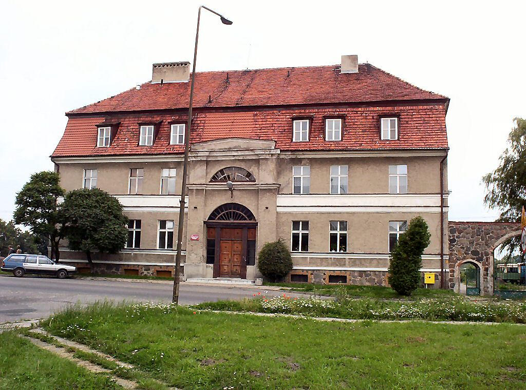 Kołbacz - manor